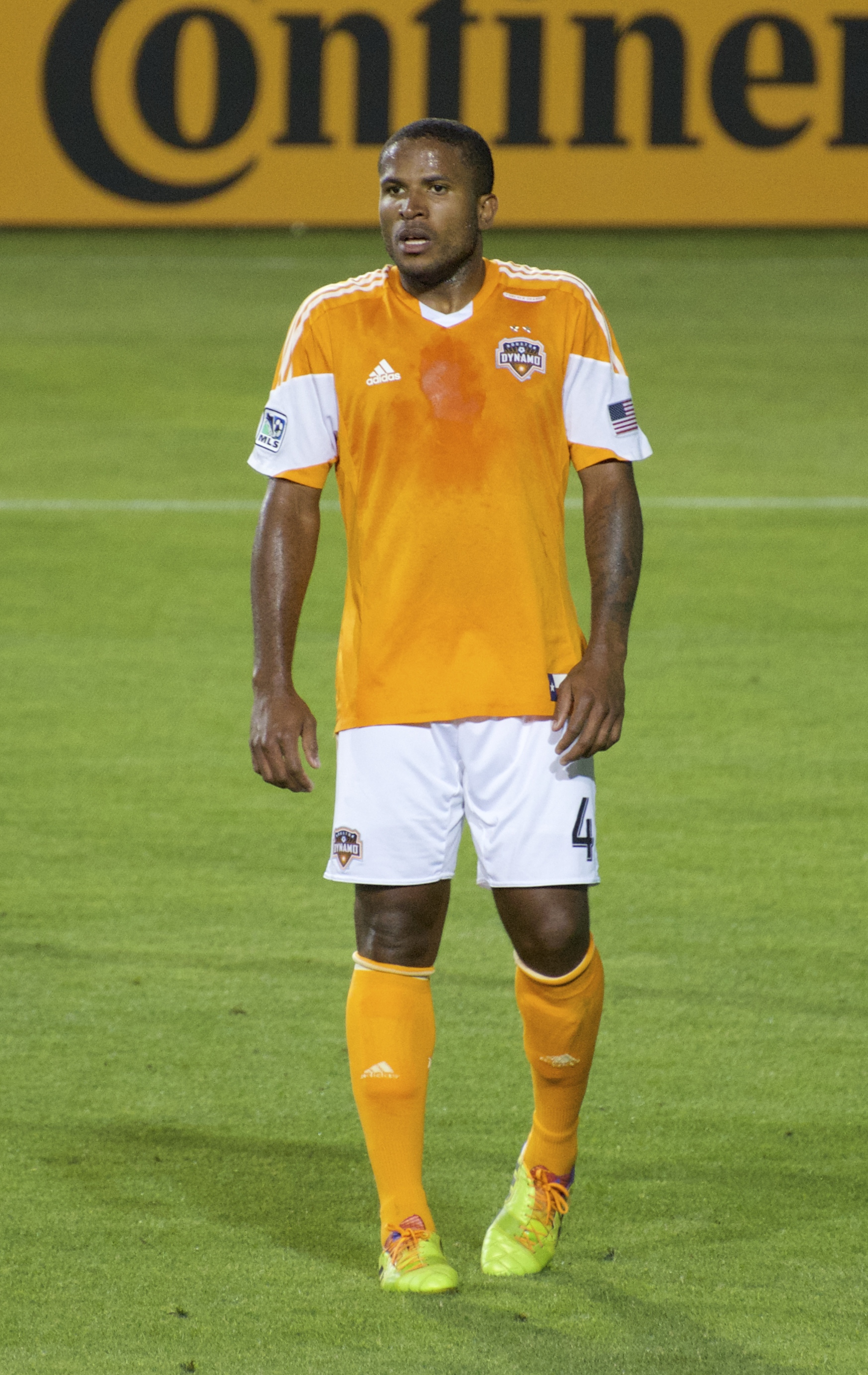 Jermaine Taylor, Houston Dynamo vs San Jose Earthquakes, Buck Shaw Stadium, 25 May 2014